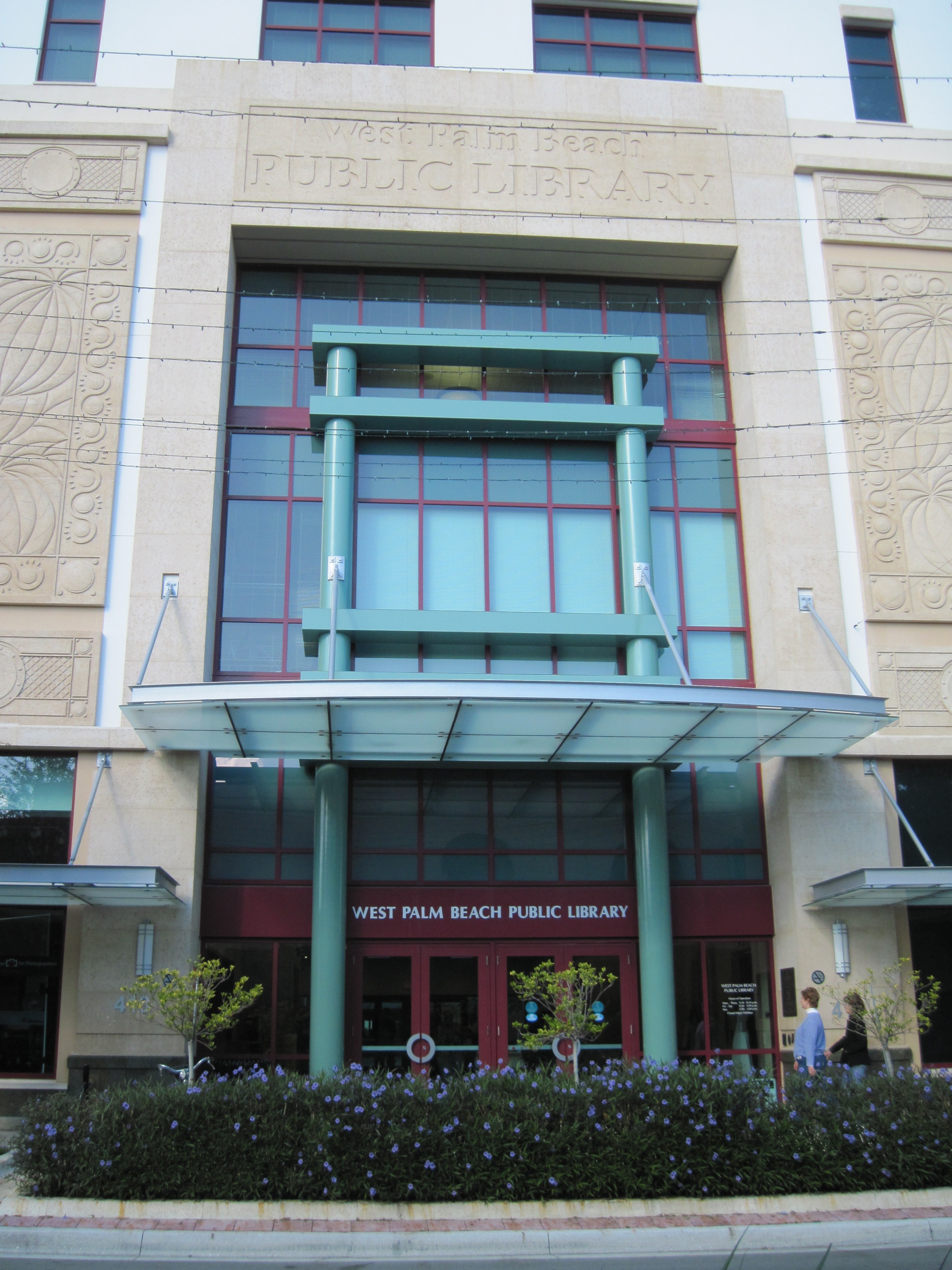 Mandel Public Library (West Palm Beach Public Library), 411 Clematis Street, West Palm Beach, FL